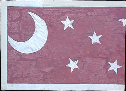 Flag of the 17th Arkansas Infantry Regiment (Griffith's)